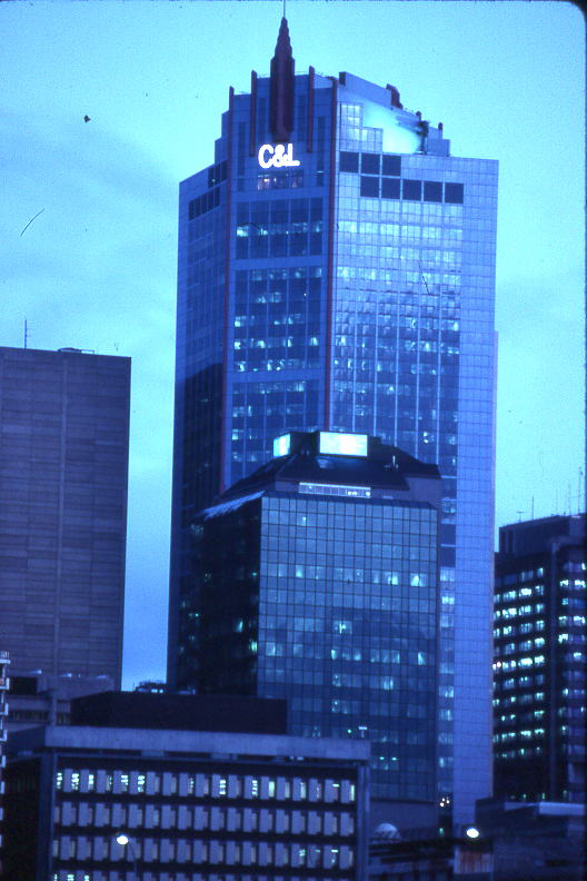 Coopers and Lybrand building, Sydney